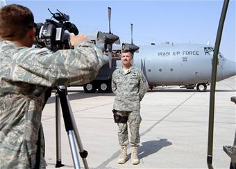 SATHER AIR BASE, Iraq -- Airman 1st Class Brad Sisson, 332nd Air Expeditionary Wing Public Affairs videographer, tapes Tech. Sgt. Dale Peters doing a 20-second Hometown Holiday Greeting spot Oct. 22 for his stateside family and friends. Airman Sisson taped more than 85 Hometown Holiday throughout the day here. Each greeting will be marketed directly to television stations in the United States for airing during the holiday season. Sergeant Peters is a 370th Air Expeditionary Advisory Squadron combat aviation advisor with the Coalition Air Force Transition Team. As such, he teaches and advises Iraqi air force air crews, loadmasters and maintainers on training and instruction. (Staff Sgt. Jennifer Lindsey